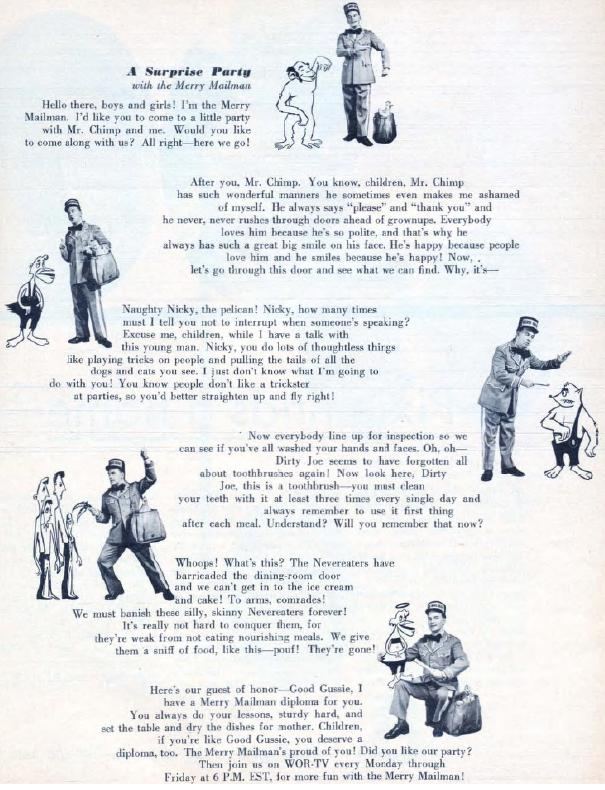 Page with photos featuring Ray Heatherton as the "Merry Mailman", from the WOR (New York) children's television program of the same name.